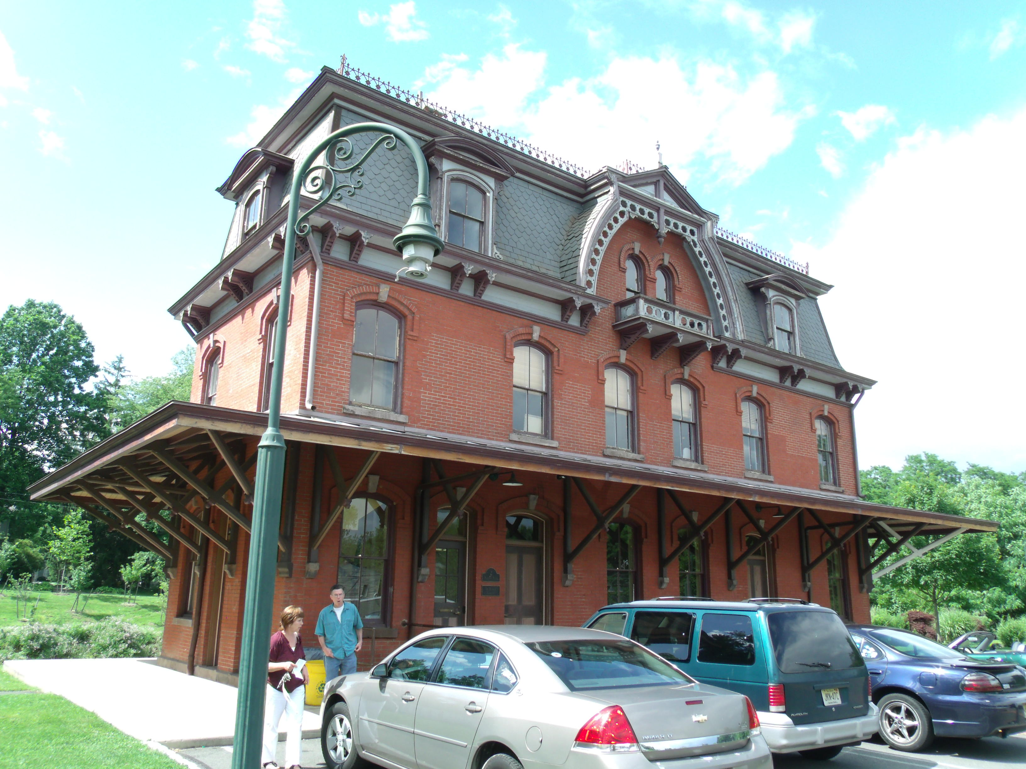 The passenger train station of Hopewell, NJ, which has not been used as a passenger station since 1982. It has an office on the second floor and what may be in use as meeting or catering rooms downstairs.